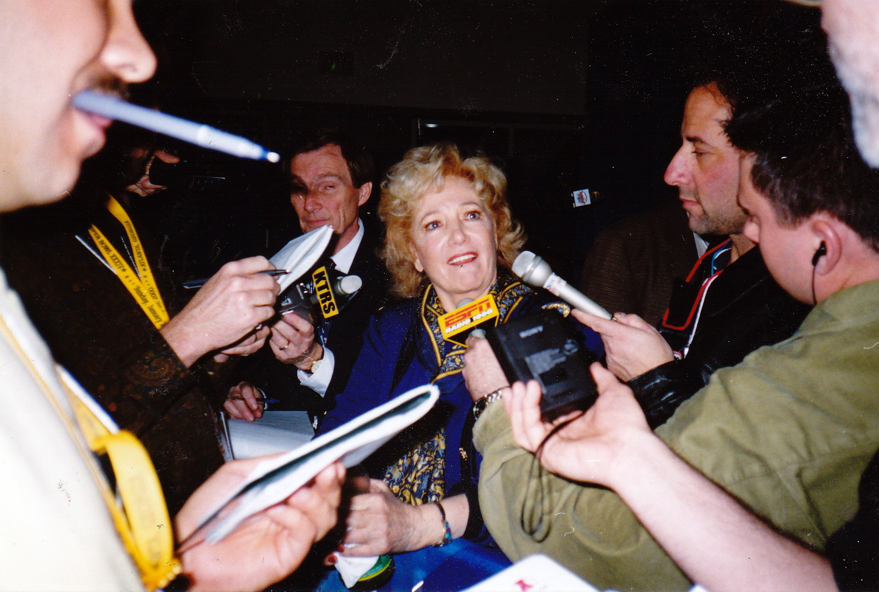 This is an image of St. Louis Rams owner Georgia Frontiere during a press conference after the Rams won SuperBowl XXXIV.